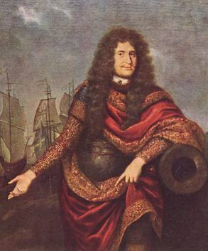 Barockmålning föreställande Eric Siöblad omkring 1700.